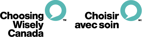 English and French trademarked logo for Choosing Wisely Canada and Choisir avec Soin.